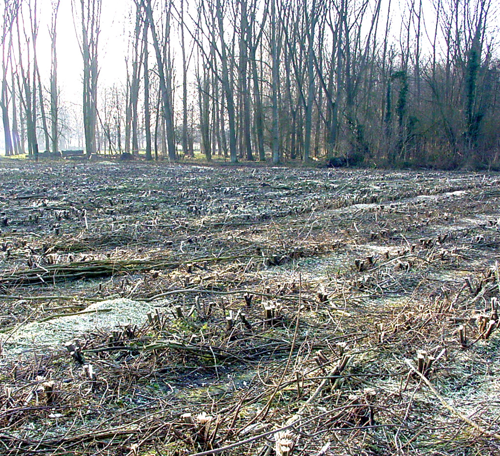 Coppice short rotation willow (clones), irrigated by water from the purification plant of Villeneuve d'Ascq (town, in northern France) for final purification of water (nitrates, phosphates). This coppice was used to produce wood chips to fuel a boiler-wood.